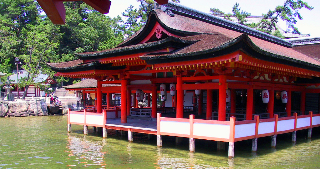 A "floating" building (Haraiden purification hall of the Marōdo auxiliary shrine) at Itsukushima Shrine